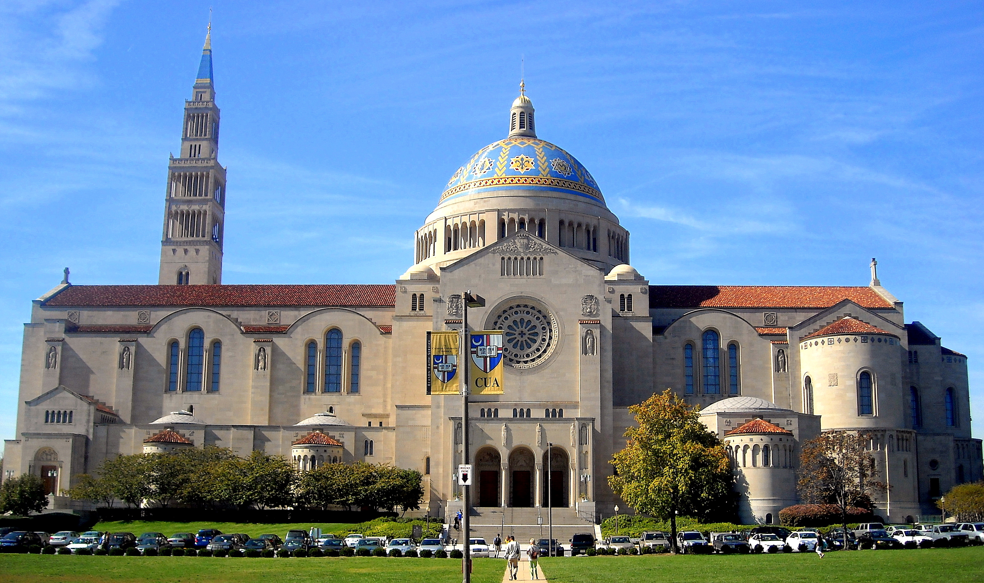 The Basilica of the National Shrine of the Immaculate Conception located next to The Catholic University of America campus in Washington, D.C.